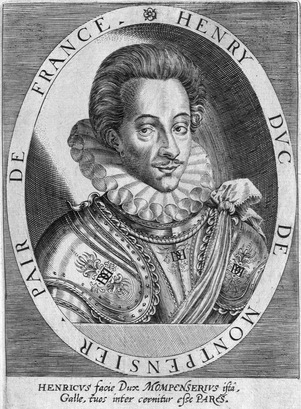 Portrait of Henry II of Montmorency